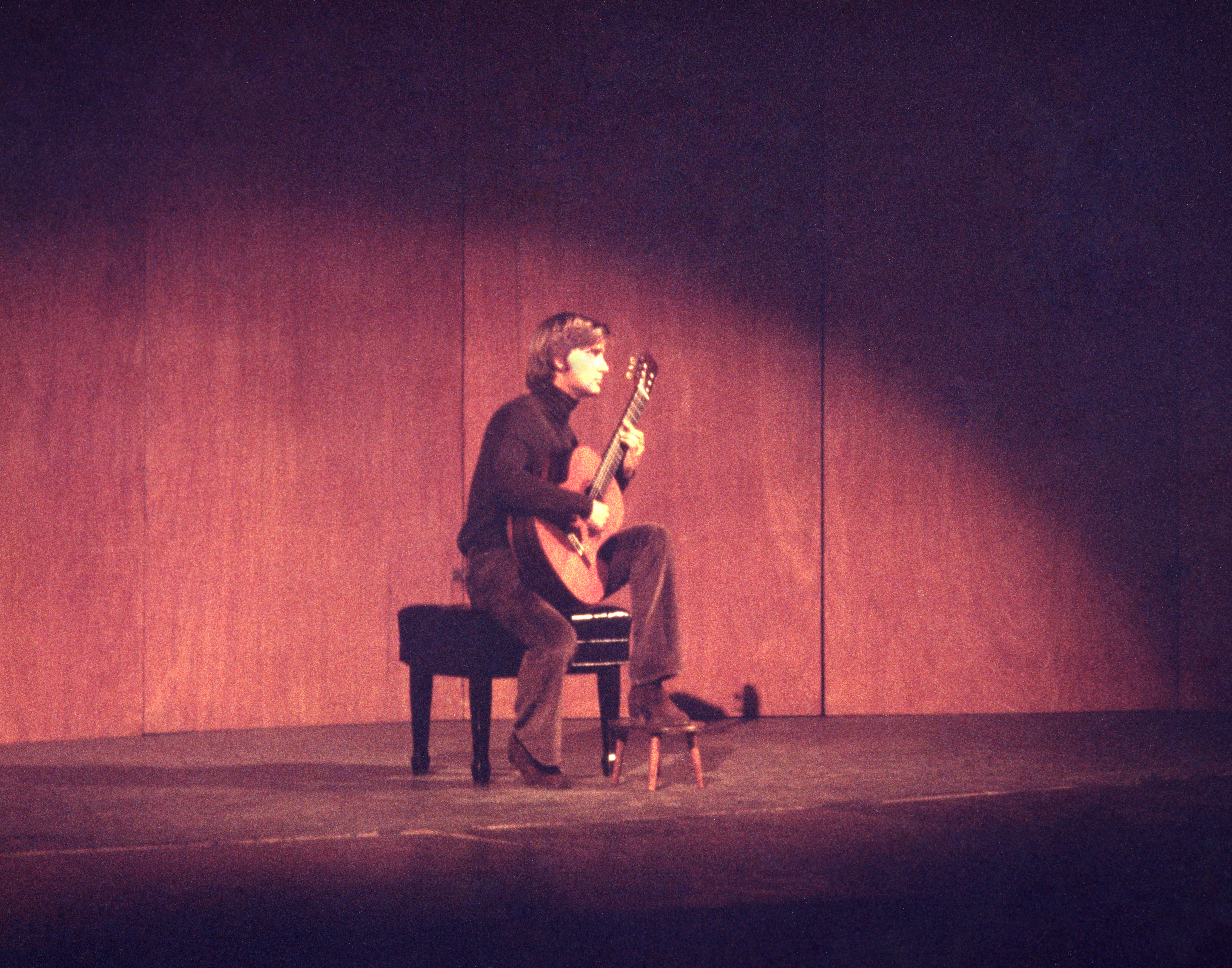 Christopher Parkening in concert, 1975 at USC's Bovard Auditorium MHW046